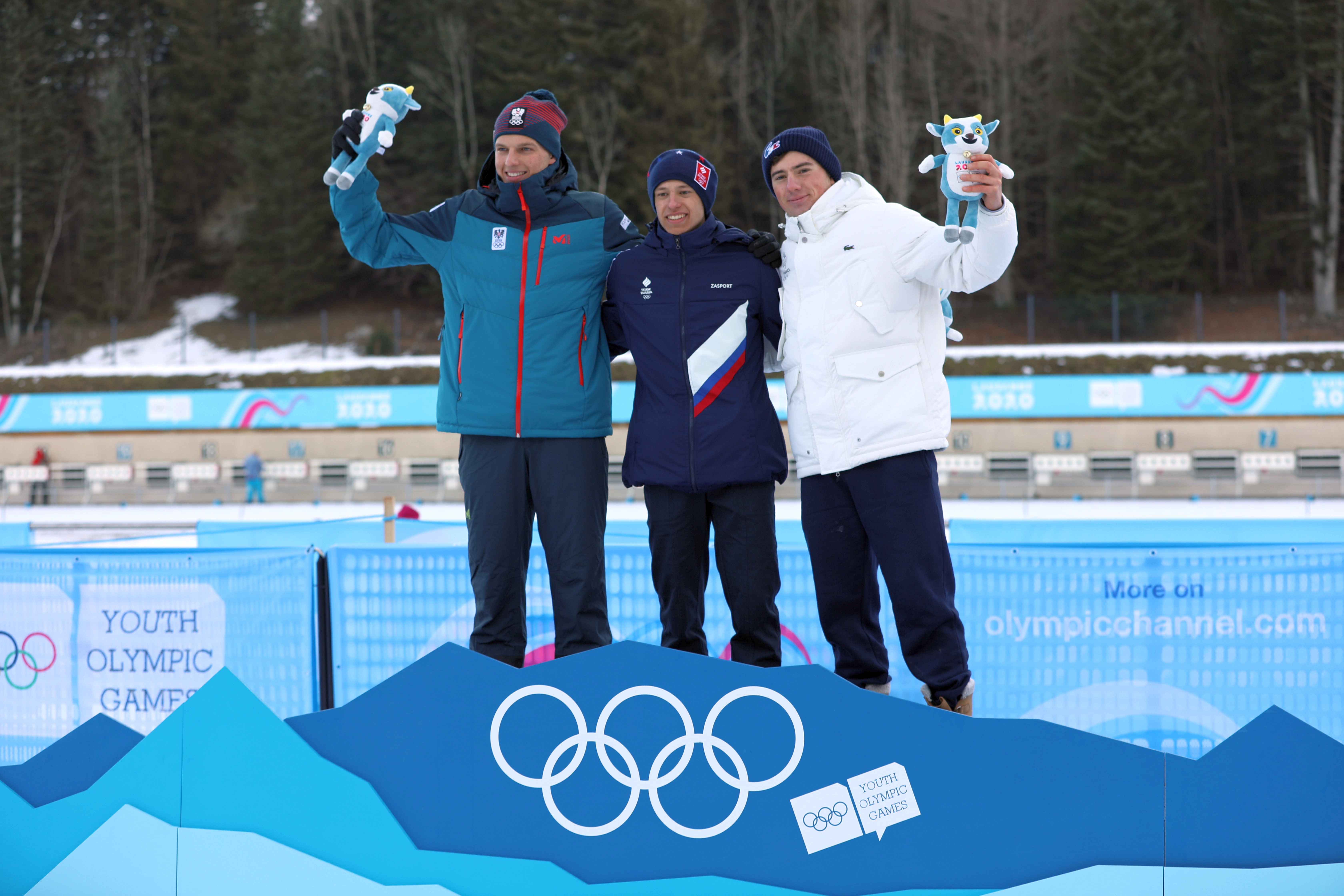 Biathlon at the 2020 Winter Youth Olympics in Lausanne at 11 January 2020 – Individual men; Mascot ceremony with medailists Oleg Domichek (Russia, Gold), Lukas Haslinger (Austria, Silver) und Mathieu Garcia (France, Bronze) and Athlete Role Model Henrik L'Abée-Lund (Norway)